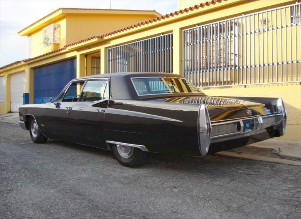 1967 Cadillac Fleetwood